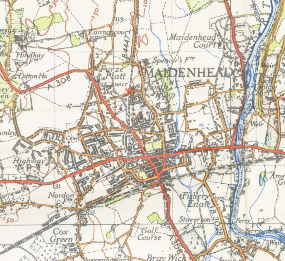 OS map from 1945 sheet 159 1 inch to the mile